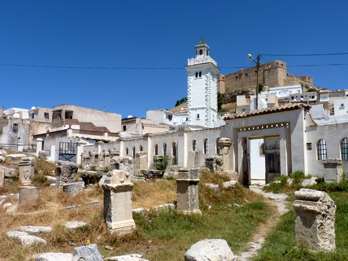 View to a mosque and the Kasbah